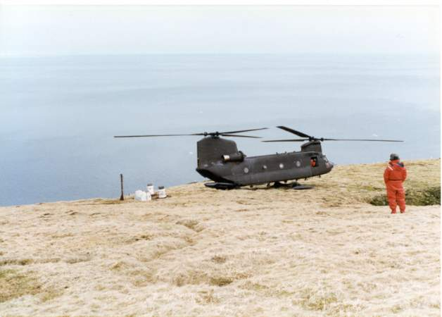 Three RTGs removed from atop Fairway Rock, Alaska and transferred to the Richland Consolidation Facility, Richland, Washington; original picture from the U.S. Navy's Arctic Submarine Laboratory